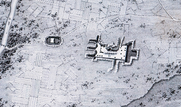 in BLOUET, Guillaume-Abel. Expédition scientifique de Morée, Ordonnée par le Gouvernement français: Architecture, Sculptures, Inscriptions et Vues du Péloponèse, des Cyclades et de l'Attique, mesurées, dessinées, recueillies et publiées par Abel Blouet, Architecte, Directeur de la Section de l’Architecture et de Sculpture de l’Expédition, Ancien Pensionnaire de l’Académie de France à Rome; Amable Ravoisié et Achille Poirot, Architectes; Félix Trézel, Peintre d’Histoire, et Frédéric de Gournay, Littérateur. Ouvrage dédié au Roi, vols. I-VI, Paris, Firmin Didot, 1831-1838.